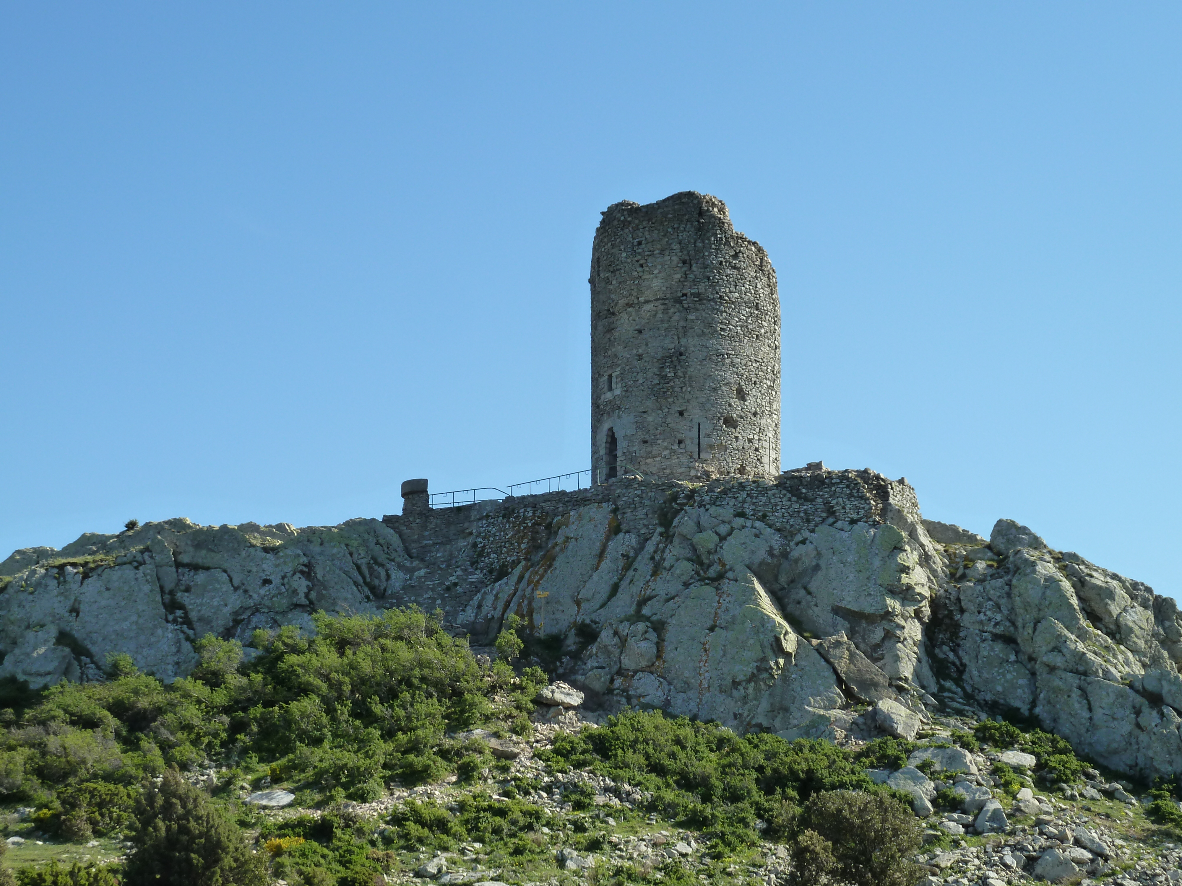 Tour de la Massane (Massane Tower). North side.